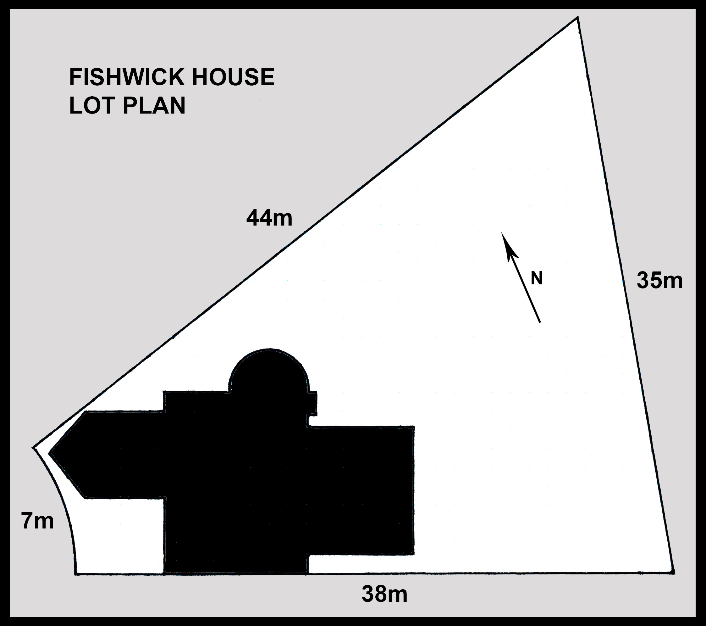 The block sits high on the Castlecrag peninsula’s spine. To the east the land drops sharply towards the harbour through five terrace levels.